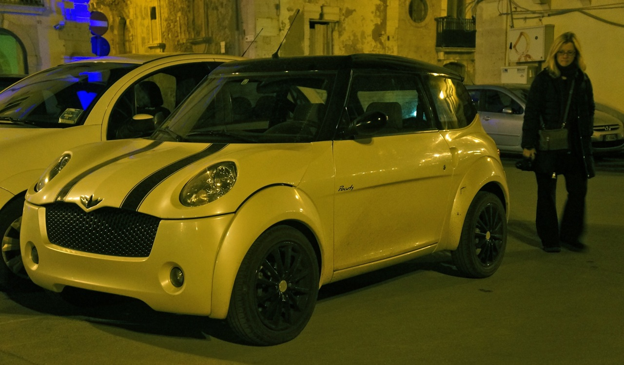 Automobile CHATENET CH26 front quarter view